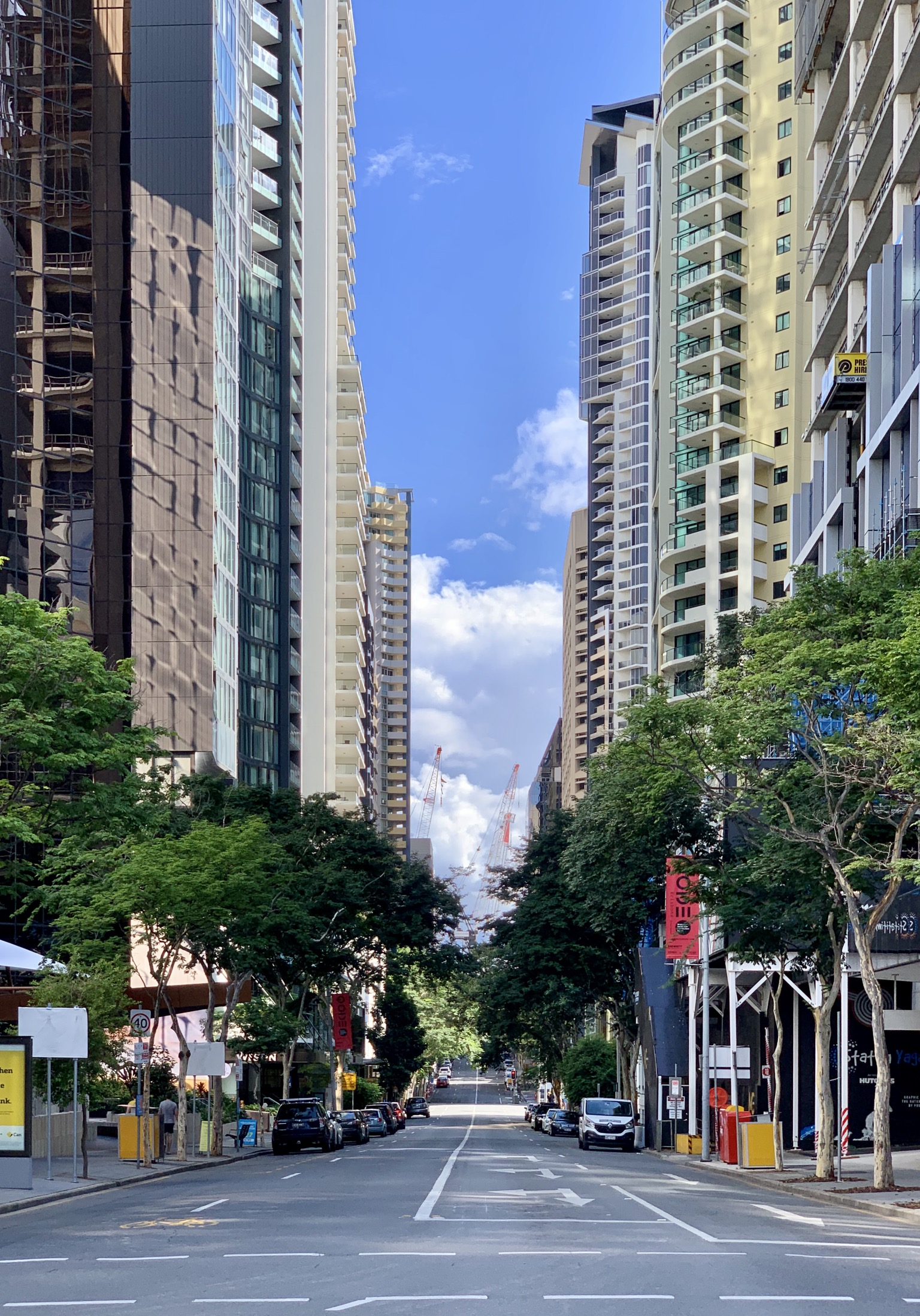 Mary Street during the COVID-19 pandemic in Brisbane, Australia